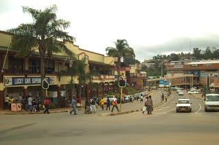 A picture of down town Mbabane.